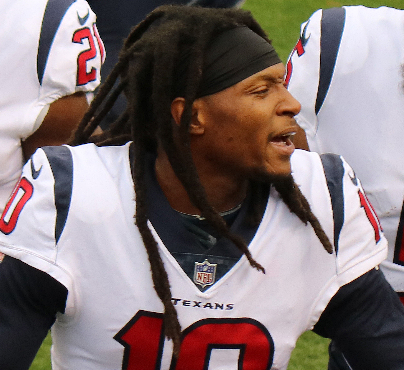 DeAndre Hopkins, a National Football League player.